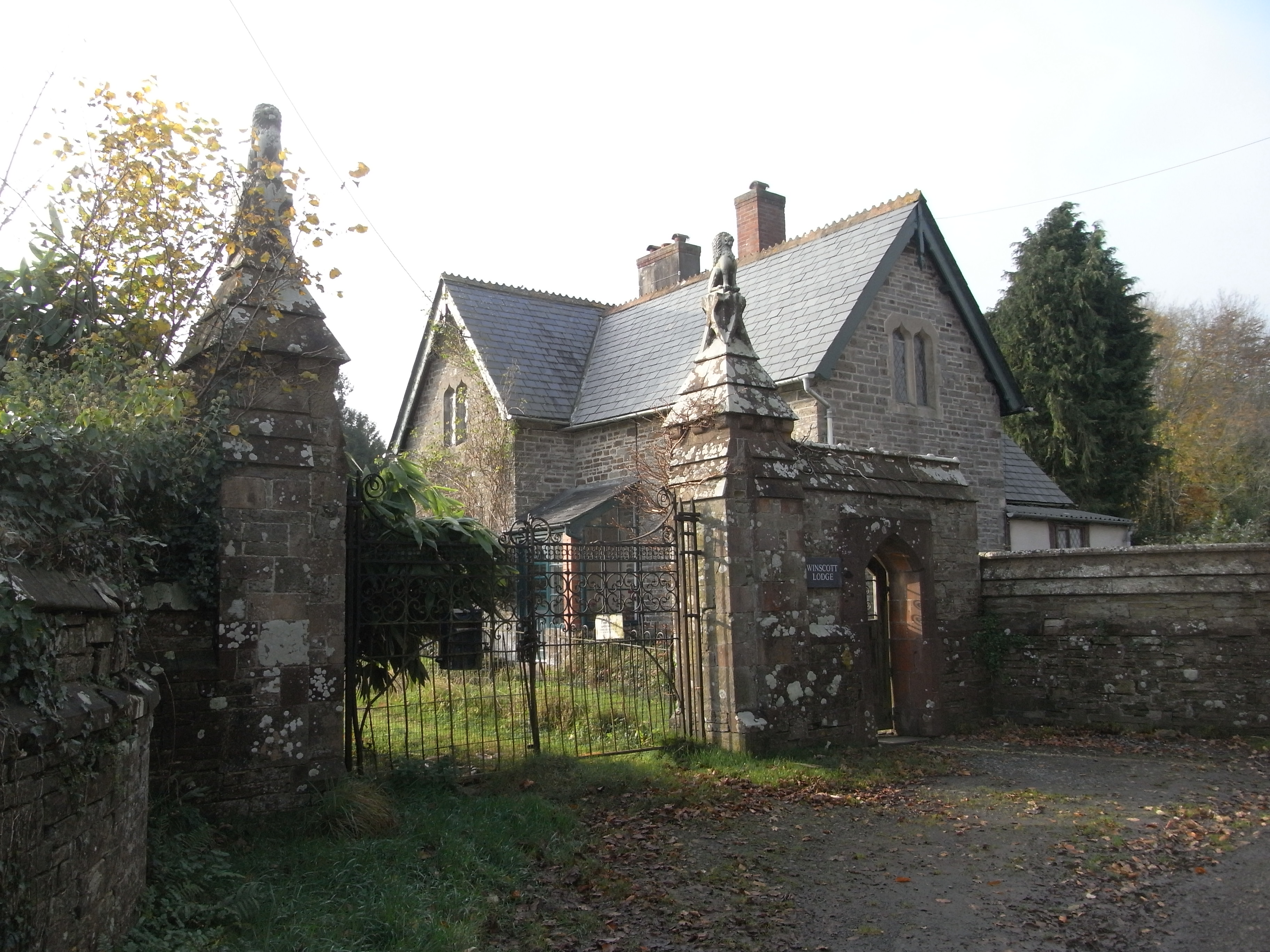 Entrance gates of the demolished Winscott House, Peters Marland, built 1865, demolished after 1931. Looking towards the SW. Situated 1 mile east of Peters Marland Church at Winscott Cross.